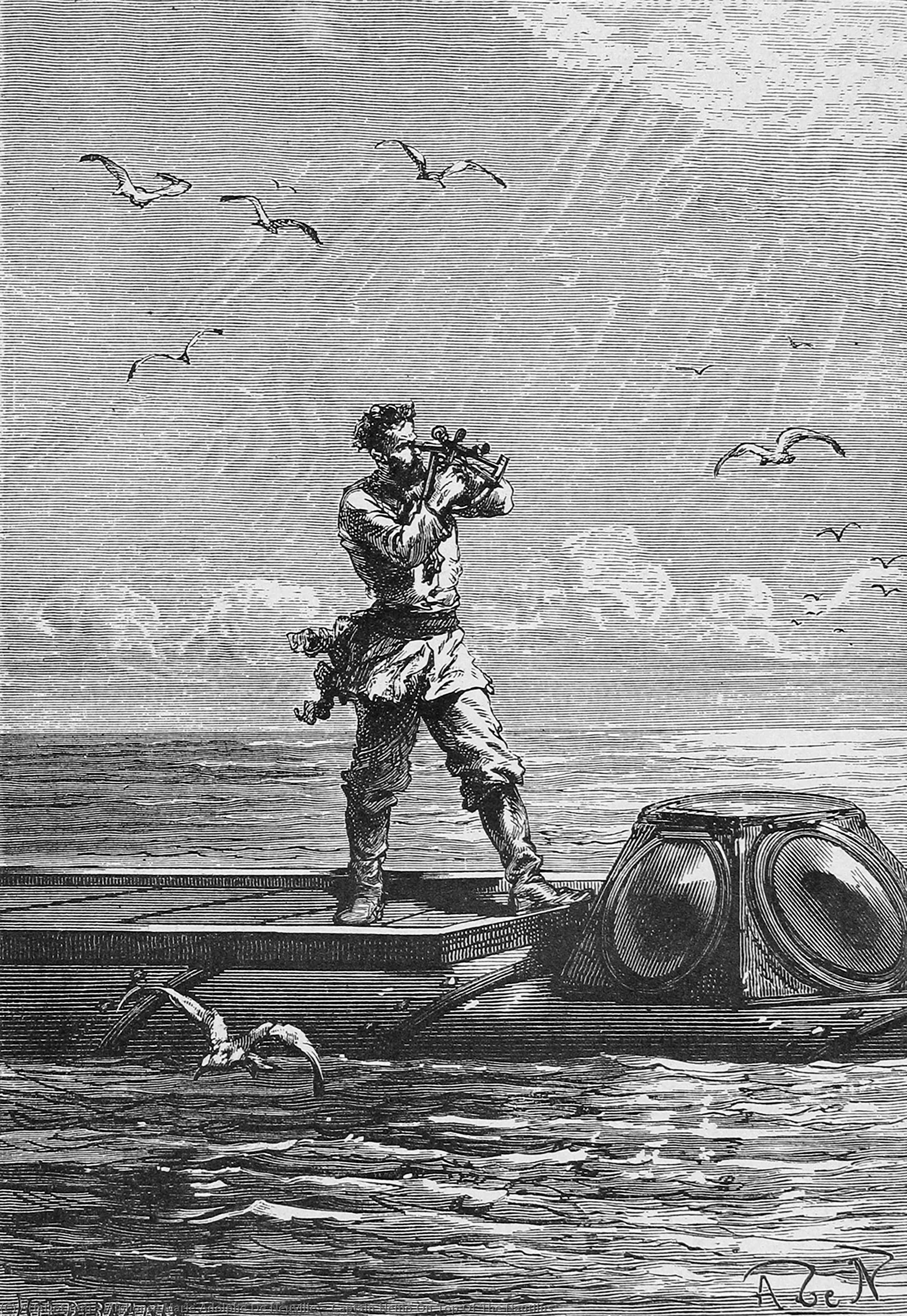 CAPTAIN NEMO ON TOP OF THE NAUTILUS by ALPHONSE MARIE ADOLPHE DE NEUVILLE